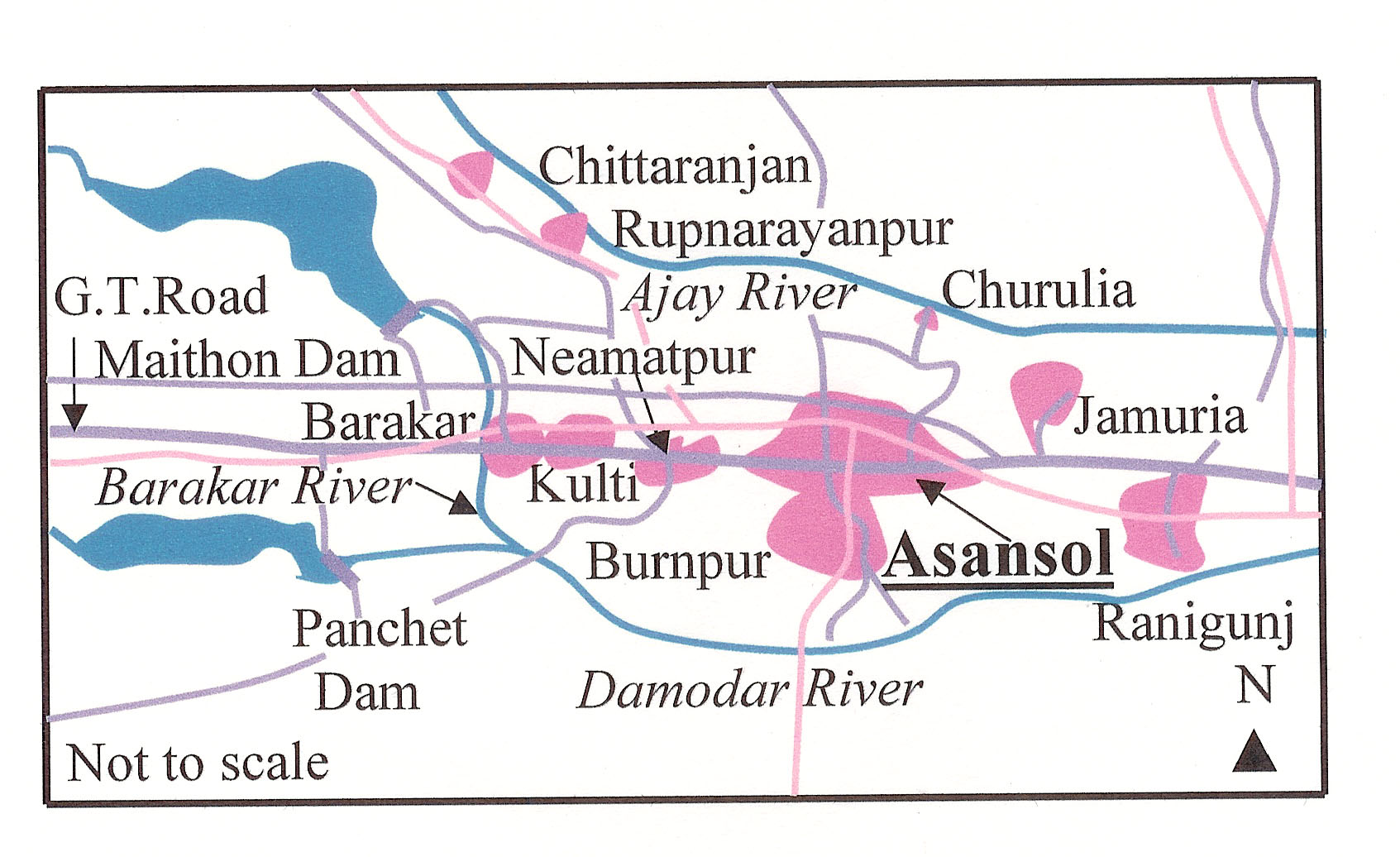 Own map